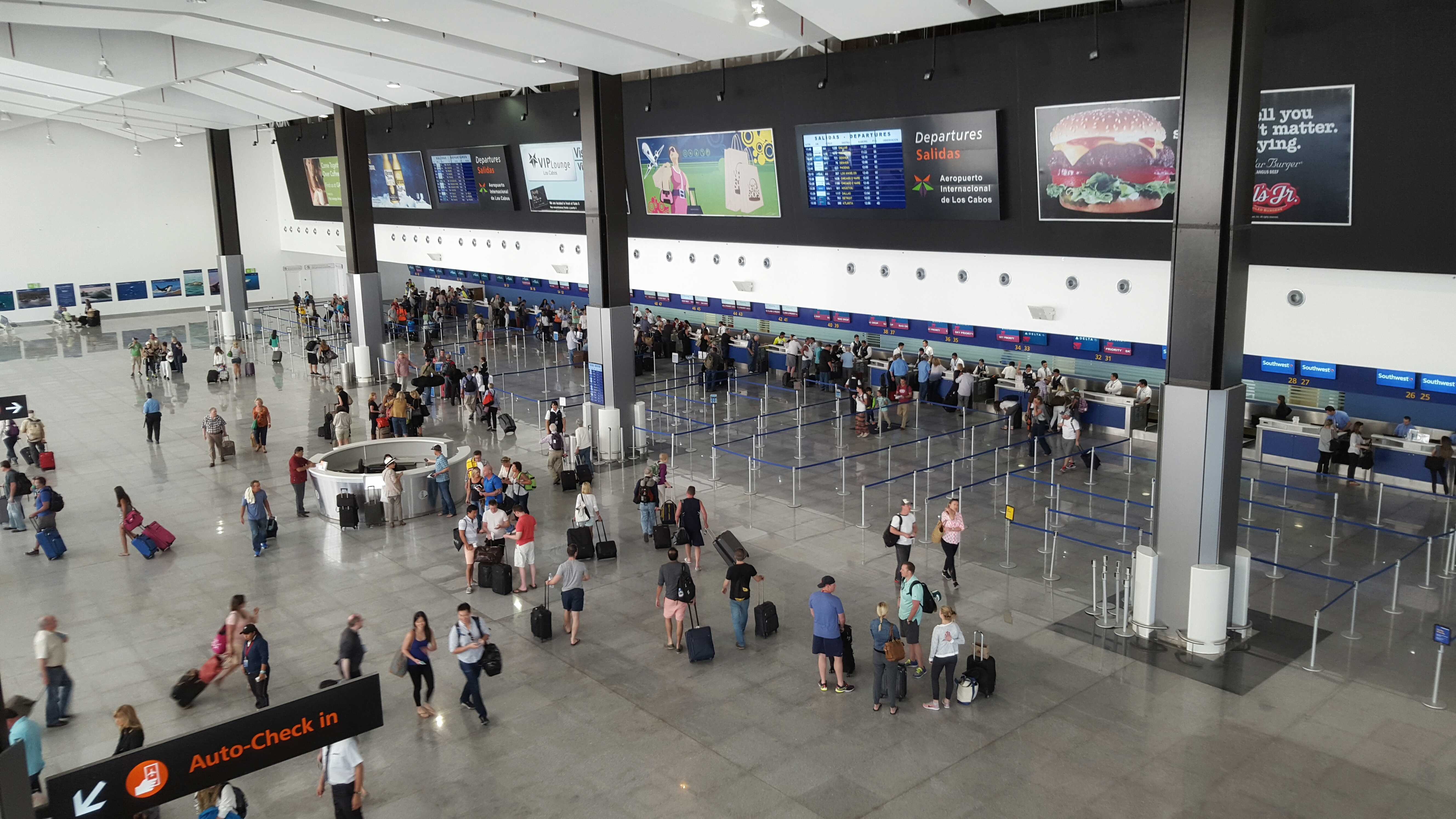 Los Cabos Intl Airport Terminal 2 / Departures Hall - Baja California Sur, Mexico